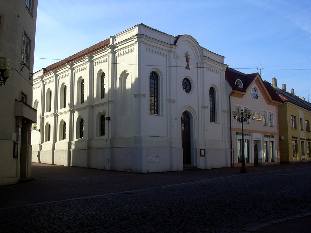 Hussite church in Vyškov, Czech Republic.